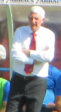 Nigel Worthington.